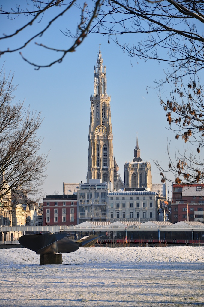 Antwer, Belgium on January 3, 2010